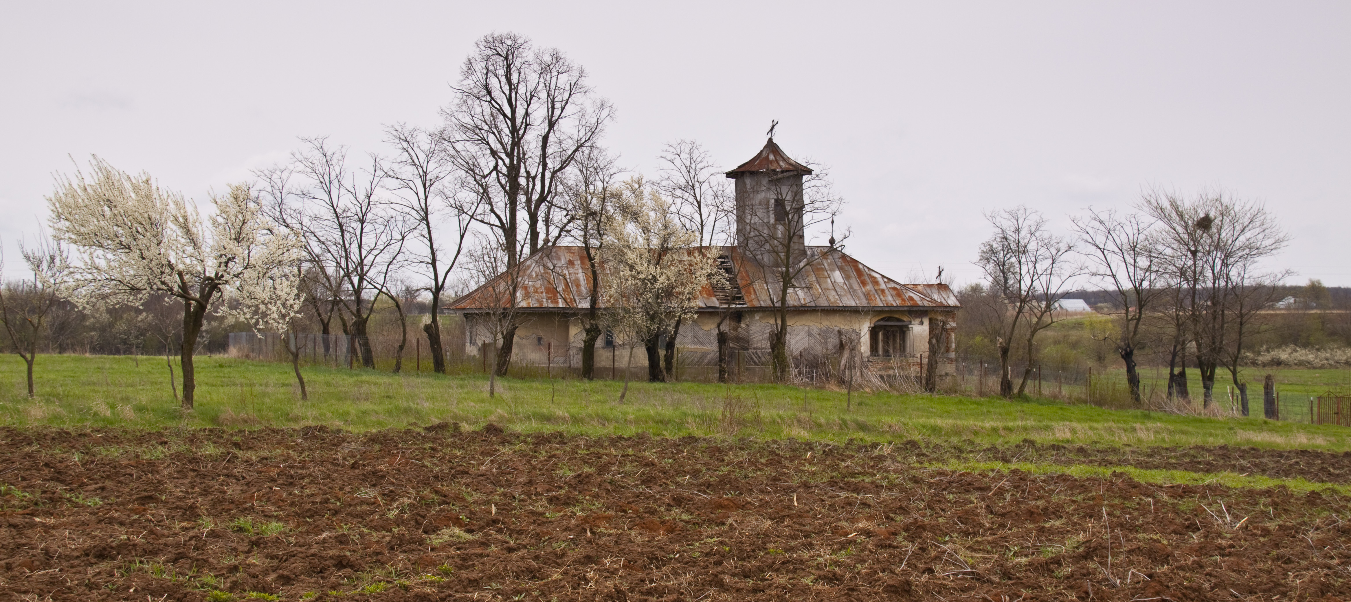 Cerşani, Argeş county, Romania: the wooden church.